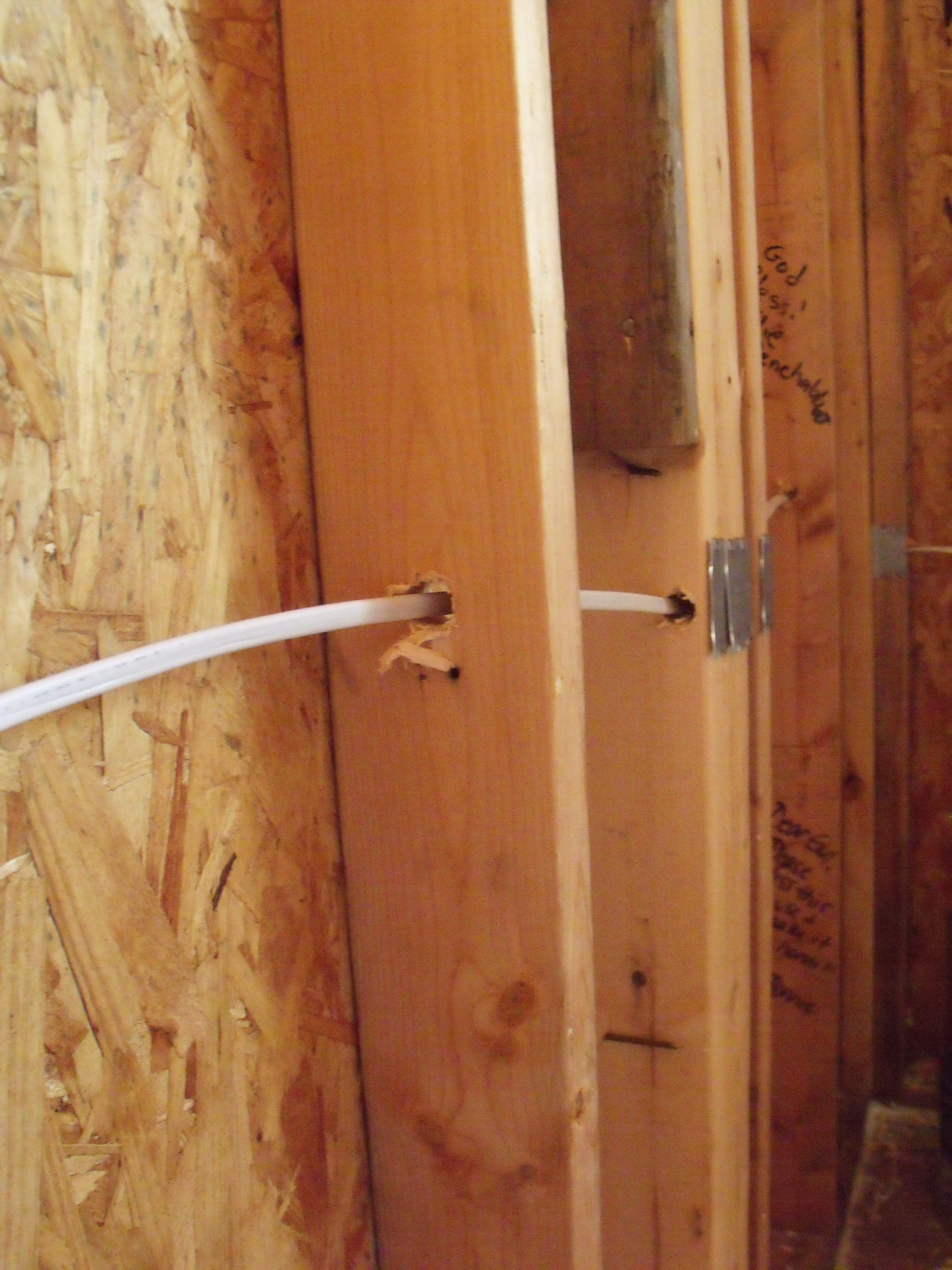 A photo showing the rough-in stage of an electrical wiring project, where thermoplastic-sheathed cable has been run through holes in wooden beams and protective metal plates have been fitted. Electrical switches and outlets have not been fitted at this stage.